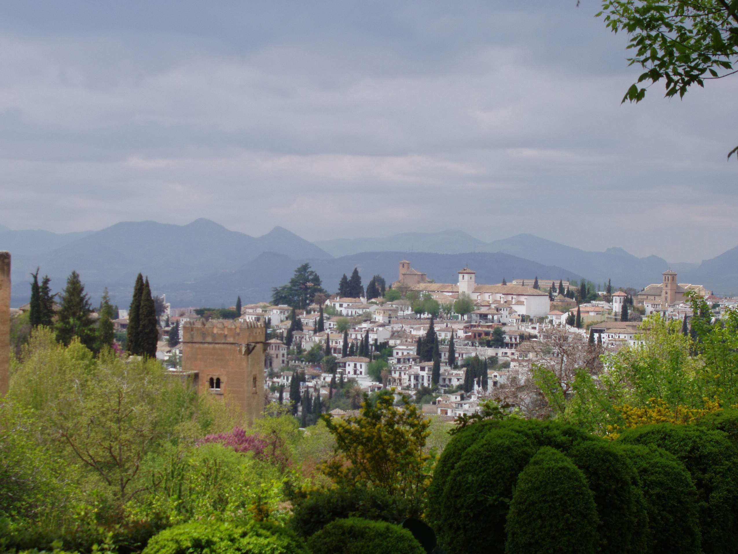 Granada, city in Spain